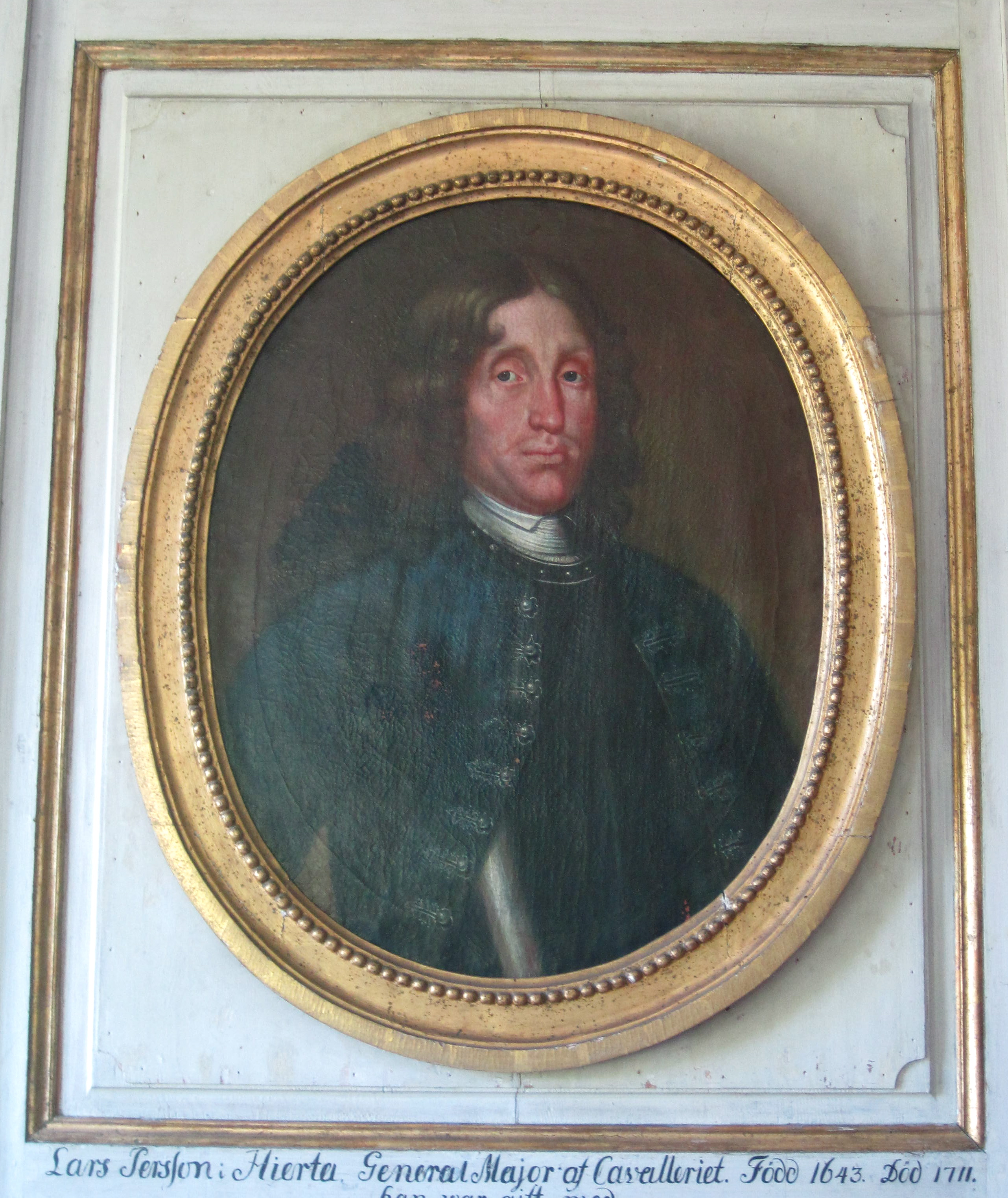 Portrait of nobleman and officer Lars Hierta (1648–1711) at Skogaholms herrgård (Skogaholm Manor), Skansen open air museum, Stockholm. Note the incorrect year of birth below the portrait.